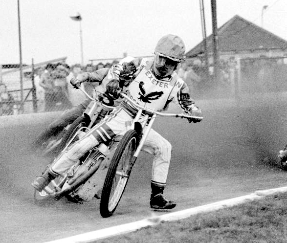 Ivan Mauger riding for Exeter Falcons